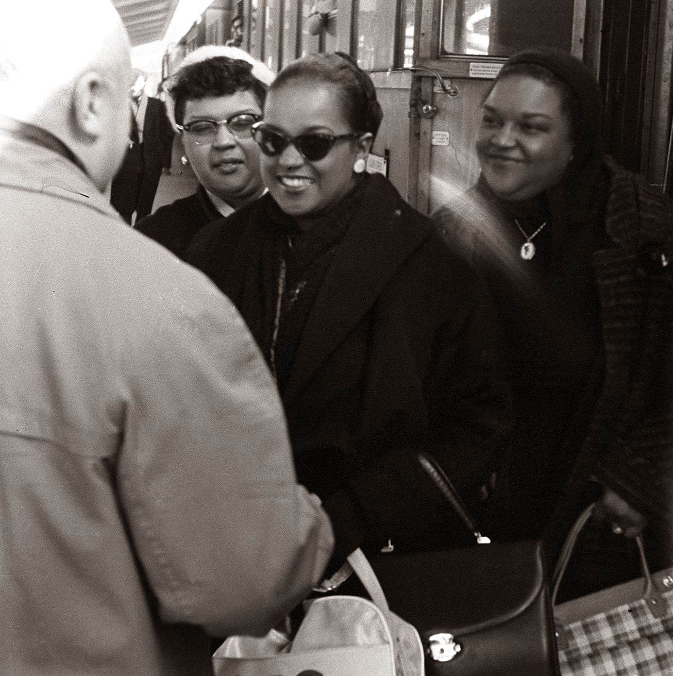 The famous Peters Sisters stopped in Maribor.